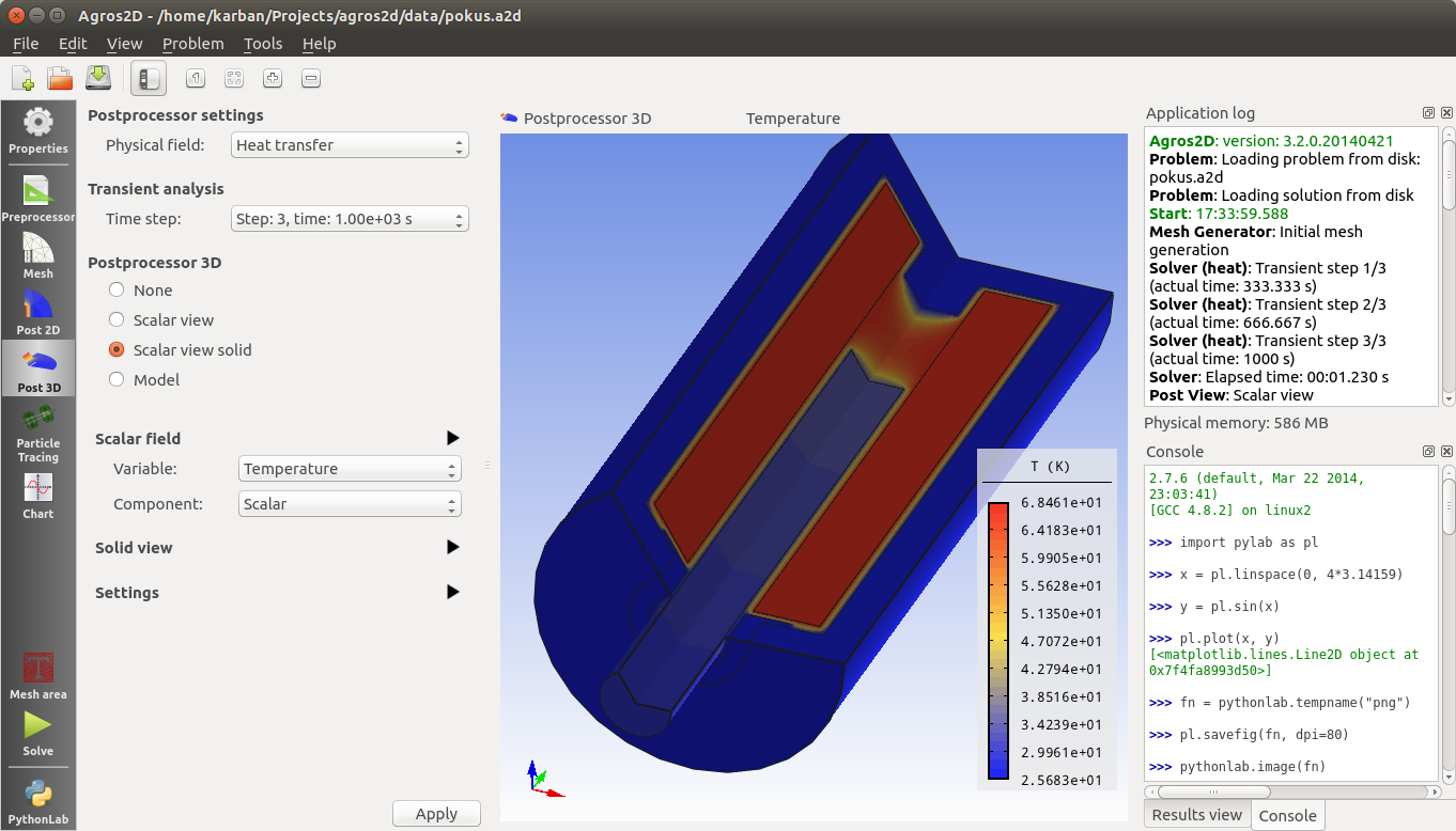 Heat transfer solved in Agros2D application